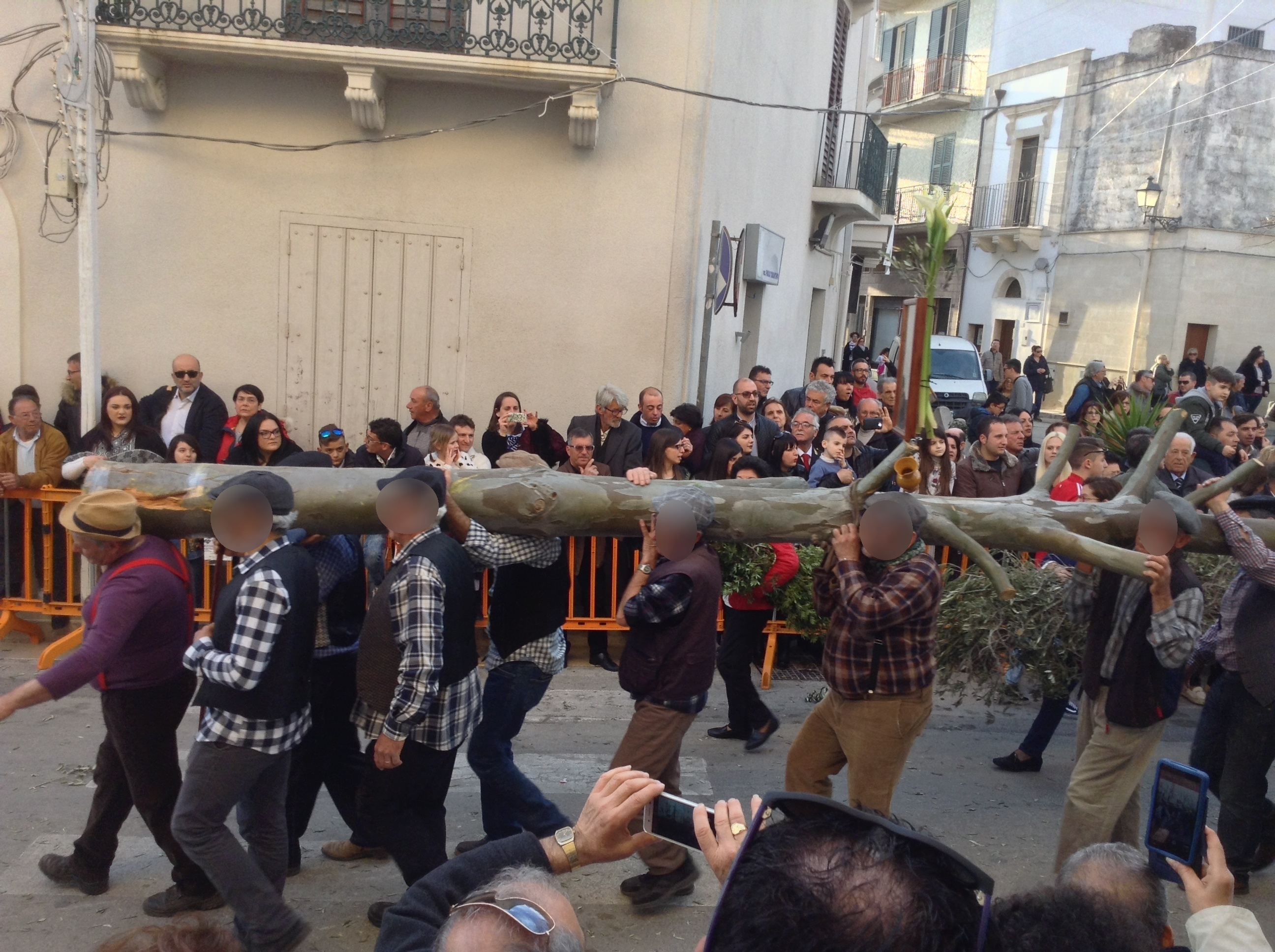 Procession of bundle of wood